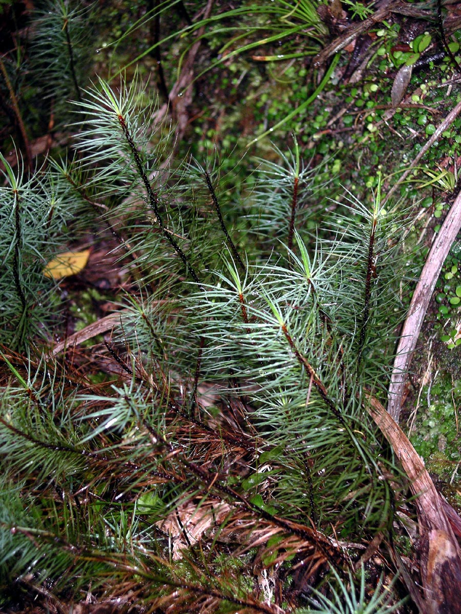 Dawsonia superba in Abel Tasman National Park, New Zealand